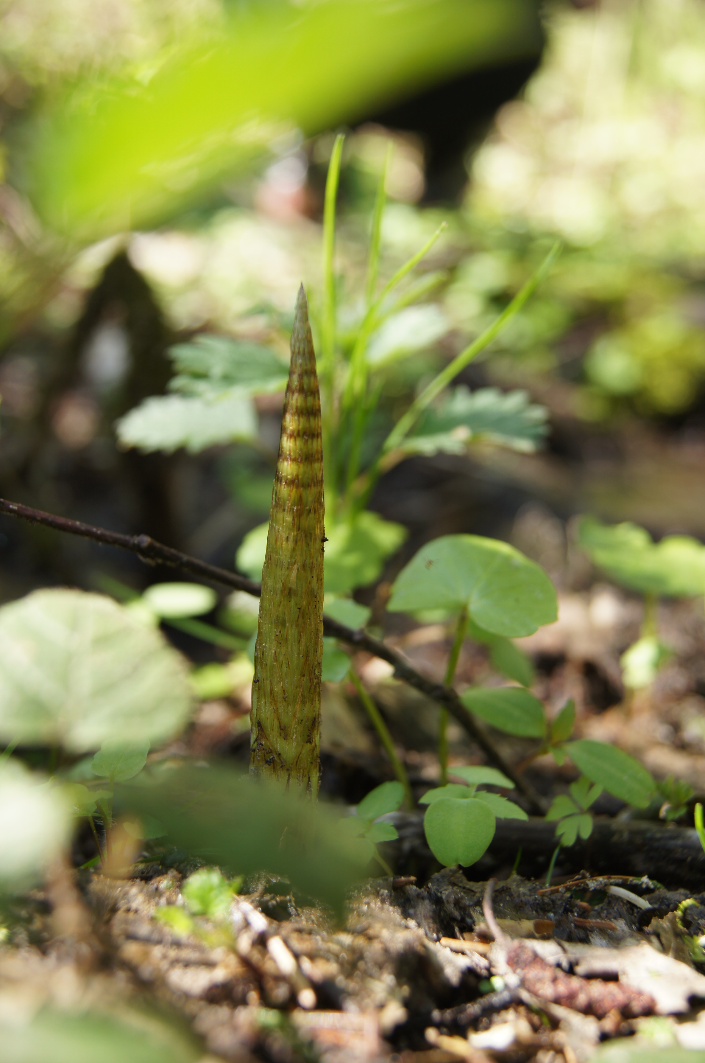 great horsetail (sprout)